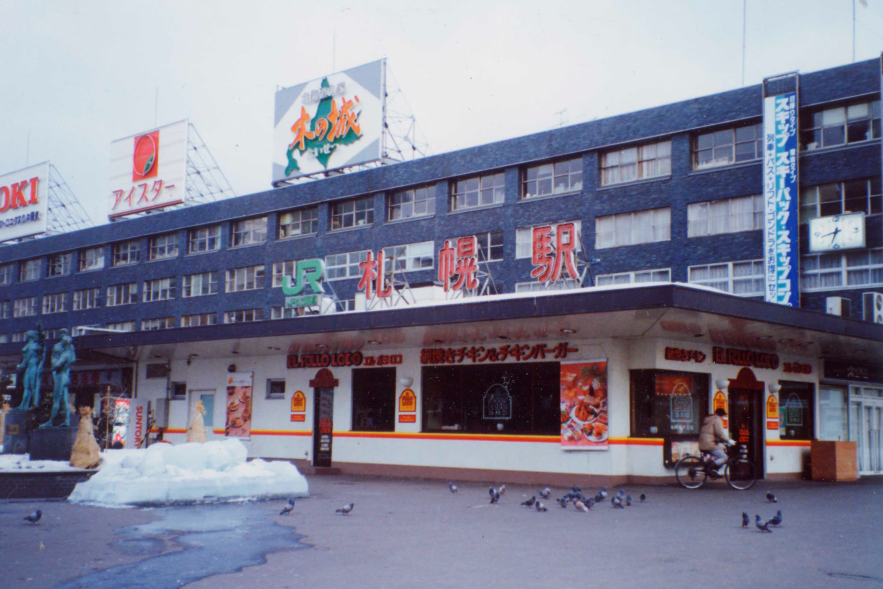 JR Hokkaido Sapporo Station building (the fourth in its history)